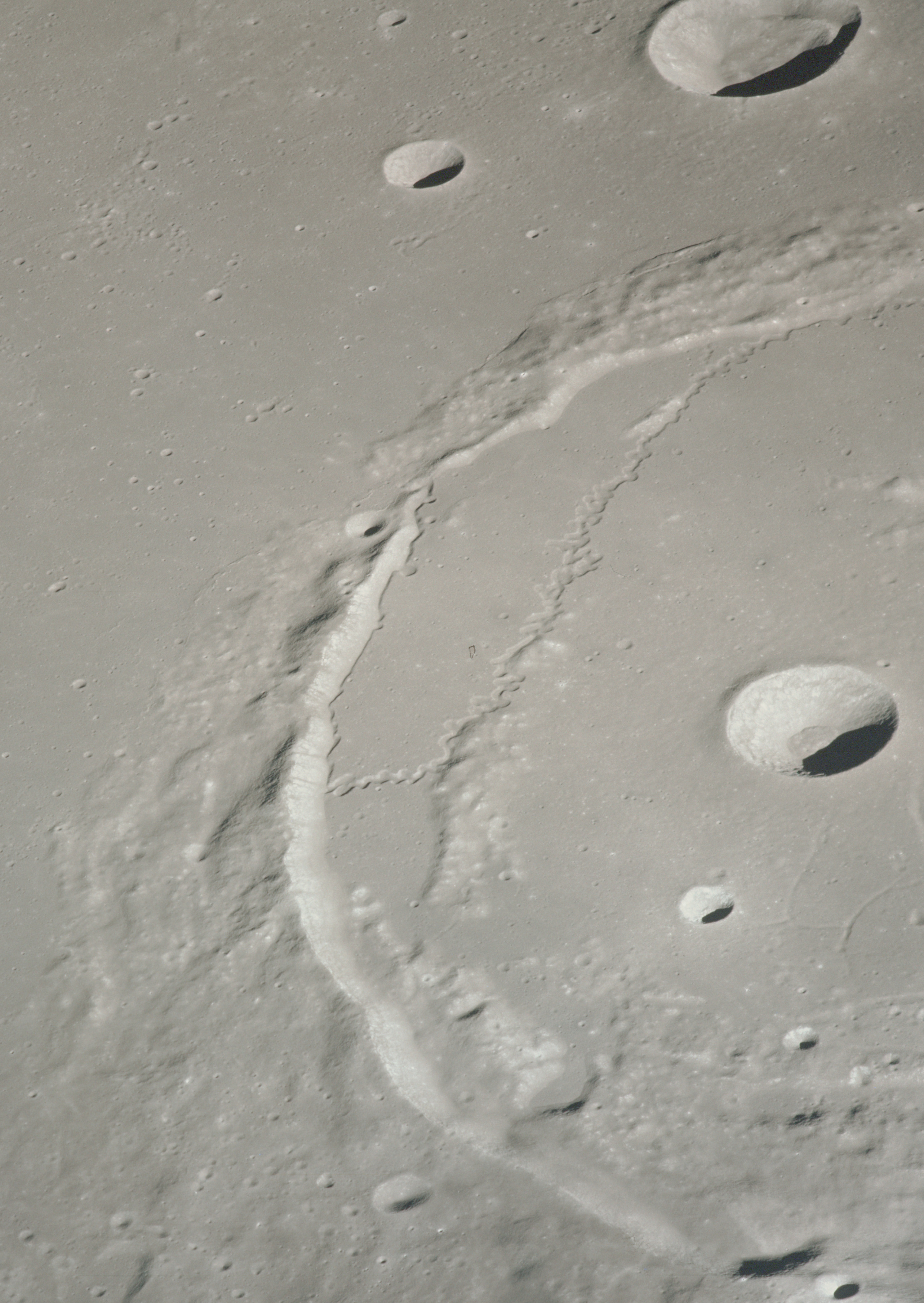 West side of Posidonius, on the moon.This is figure 3-50 from the Apollo 15 Preliminary Science Report (NASA SP-289), which has the following caption:Western half of Posidonius Crater on eastern margin of Sea of Serenity. A tightly convoluted sinuous rille crosses the raised floor of the crater, turns back, and follows the rim to a low point in the western rim. The higher resolution version is Figure 207 from Apollo Over the Moon (NASA SP-362, 1978), which has the following caption: The large (approximately 100 km) crater Posidonius is filled with mare lava to a level higher than the surrounding surface of Mare Serenitatis. The most interesting and perplexing feature of this crater is Rima Posidonius II-the highly sinuous rille that follows a devious course from the north rim of the crater at upper right (outside the photograph) through the breach in the crater rim at center. The rille is topographically controlled in part, hugging the juncture between lava and crater material. Erosion by some sort of fluid may have formed the rille; material appears to have been removed from it. An alternative explanation might be that the feature represents a drained and collapsed lava tube. The fluid involved probably was emitted from the craterlike depression at the head of the rille in the crater's north wall. If the rille is assumed to be contemporaneous with the lava filling, a lava of low viscosity would seem to be required to explain the channel's high sinuosity. C.A.H. (Carroll Ann Hodges)